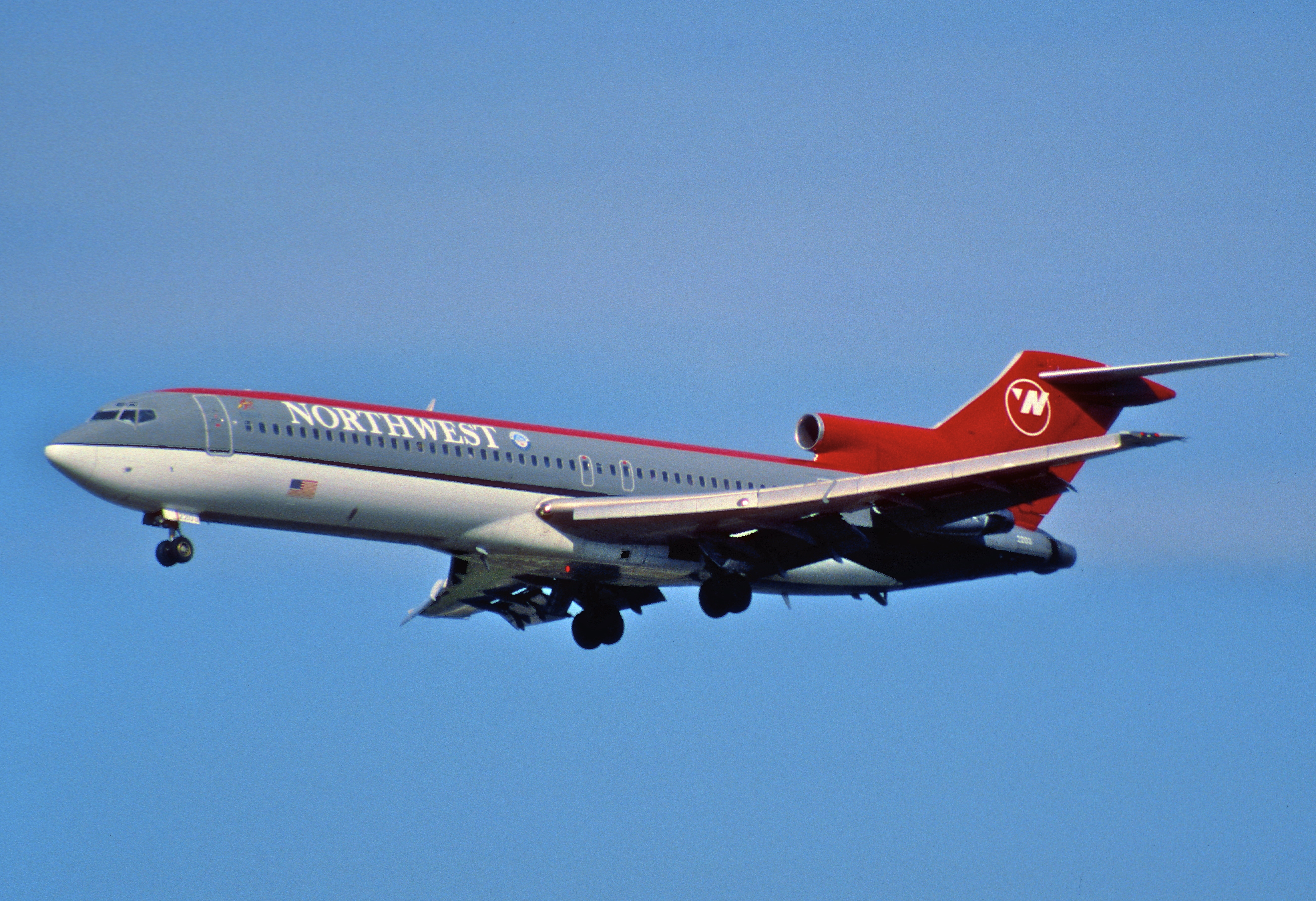 First flight: December 12, 1980...(c/n 22543/ 1700) 07/01/1981 Northwest Airlines N203US November 2002 Antonov Aircraft Dealer Corporation N727AN April 2005 SW Business Aviation 4K-8888, converted to VIP configuration winglets added